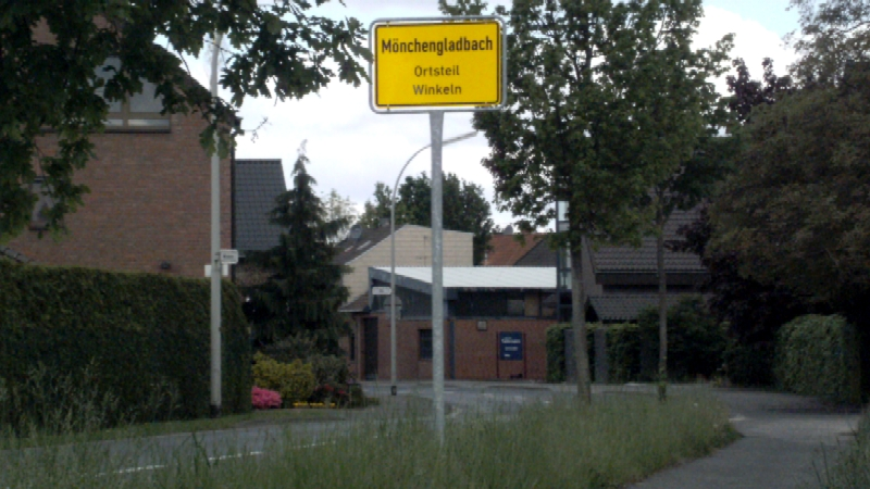 Winkeln eastern city limit, Mönchengladbach, Germany.